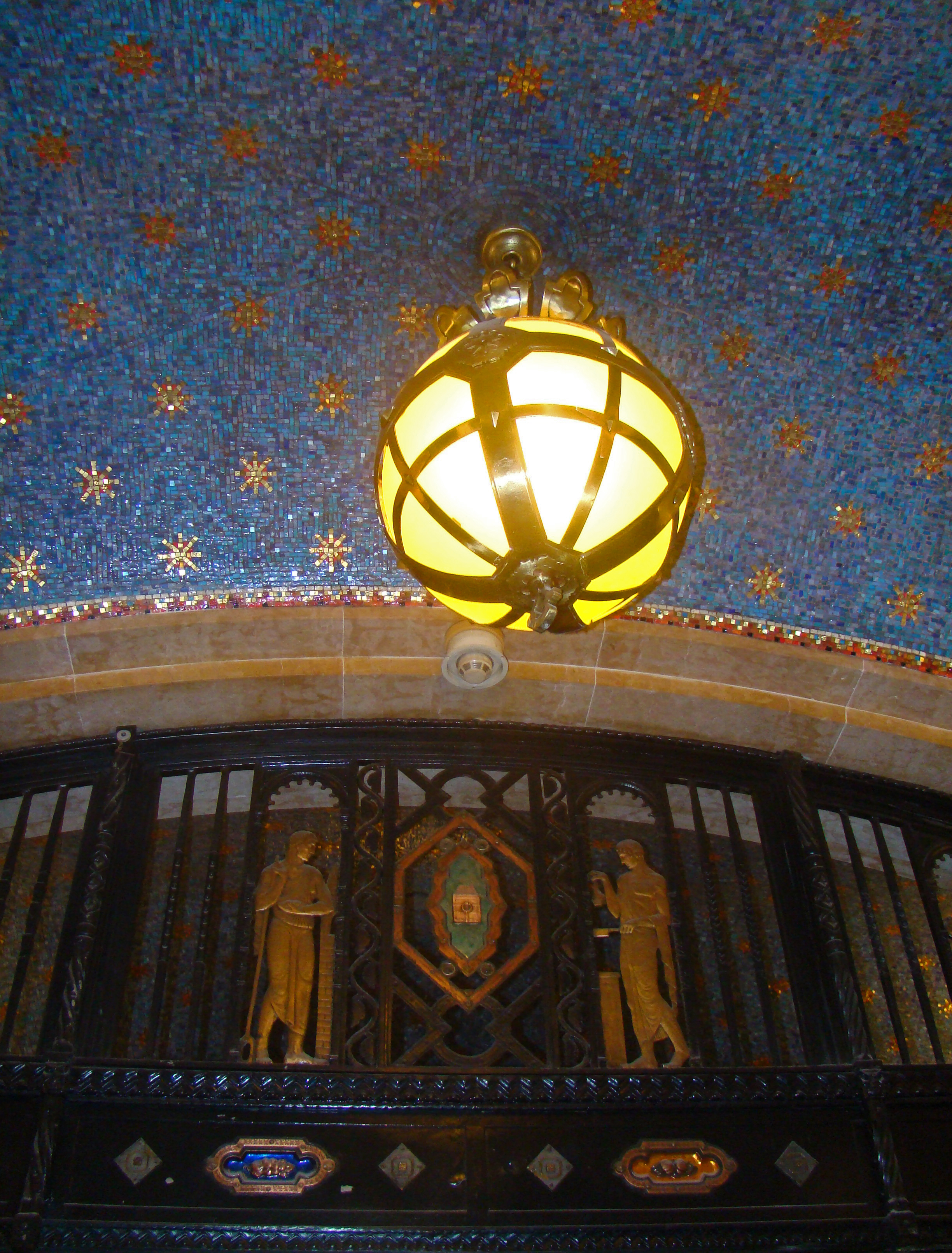 Rene Chambellan metalwork, Williamsburgh Savings Bank, Brooklyn, 1928